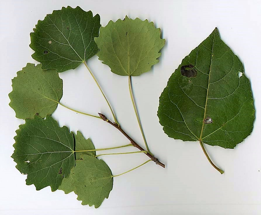 Eurasian Aspen (Populus tremula) leaves: adult (left), juvenile (right) - photo User:MPF